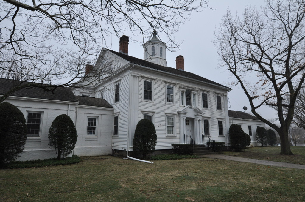 Westbrook Town Center Historic District, Westbrook, Connecticut. Town office building.